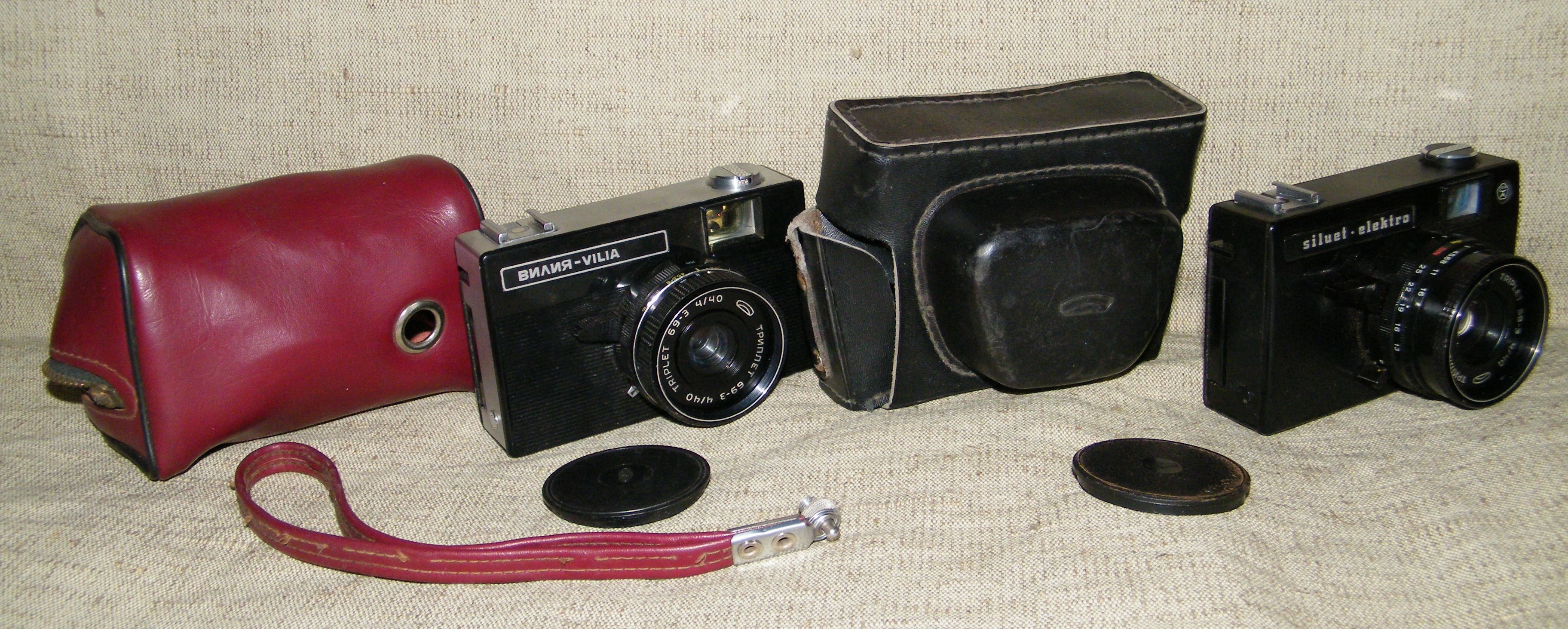 Футляры БелОМО